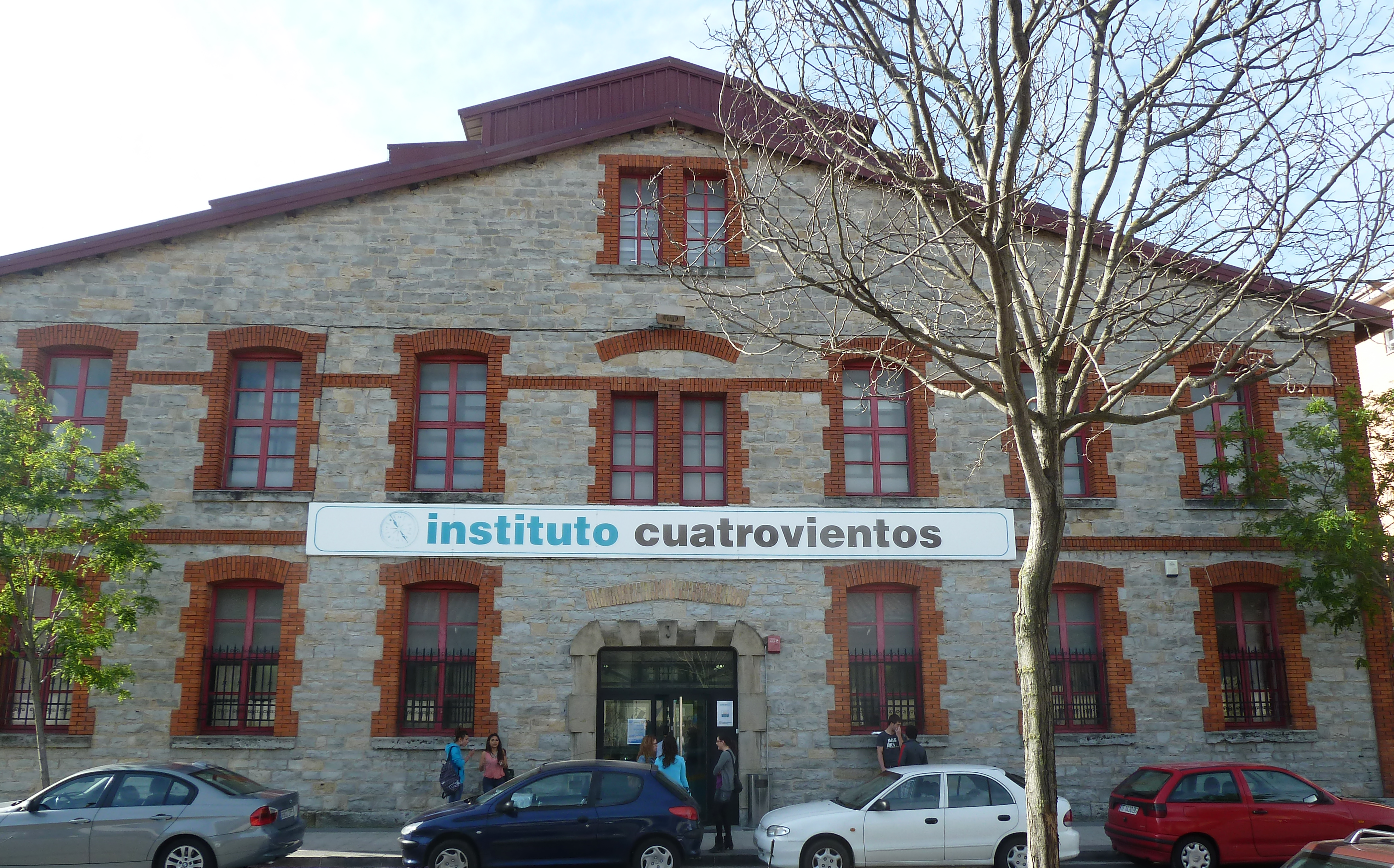 Centro privado de Formación Profesional inaugurado en 1987 que está ubicado en la avenida de San Jorge número 2 (Pamplona), en un inmueble declarado de interés histórico -una antigua fábrica- cuya construcción data de principios de 1900. Ostenta la forma jurídica de cooperativa de trabajo asociado. Imparte Ciclos Formativos de Grado Medio y Superior de las Familias Profesionales de Administración, Comercio y Marketing e Informática. Toda su oferta es en castellano (modelo G).